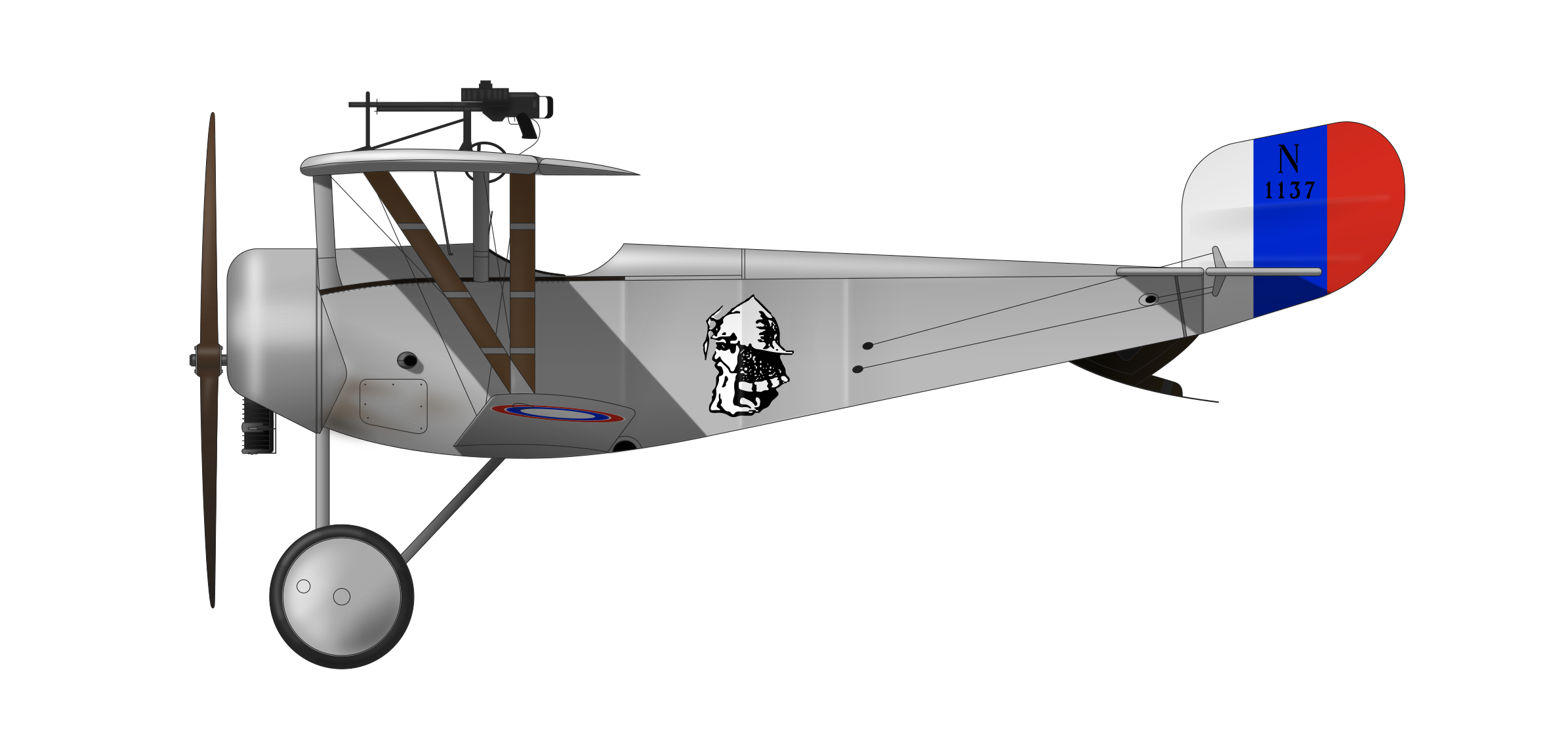 Poruchik Yevgraf Kruten's Nieuport 11 (N1137/1582). 2nd AOI (Aviatsionniy Otryad Istrebitelei), Nyasvizh, Minsk Region, July-August 1916. The source for the color scheme is Harry Dempsey's drawing in Viktor Kulikov, Russian Aces of World War 1, Osprey Publishing 2013, p. 39.